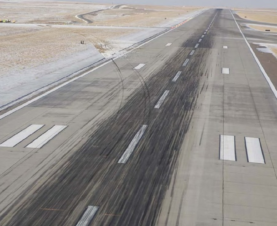 Continental Airlines Flight 1404 runway skid marks